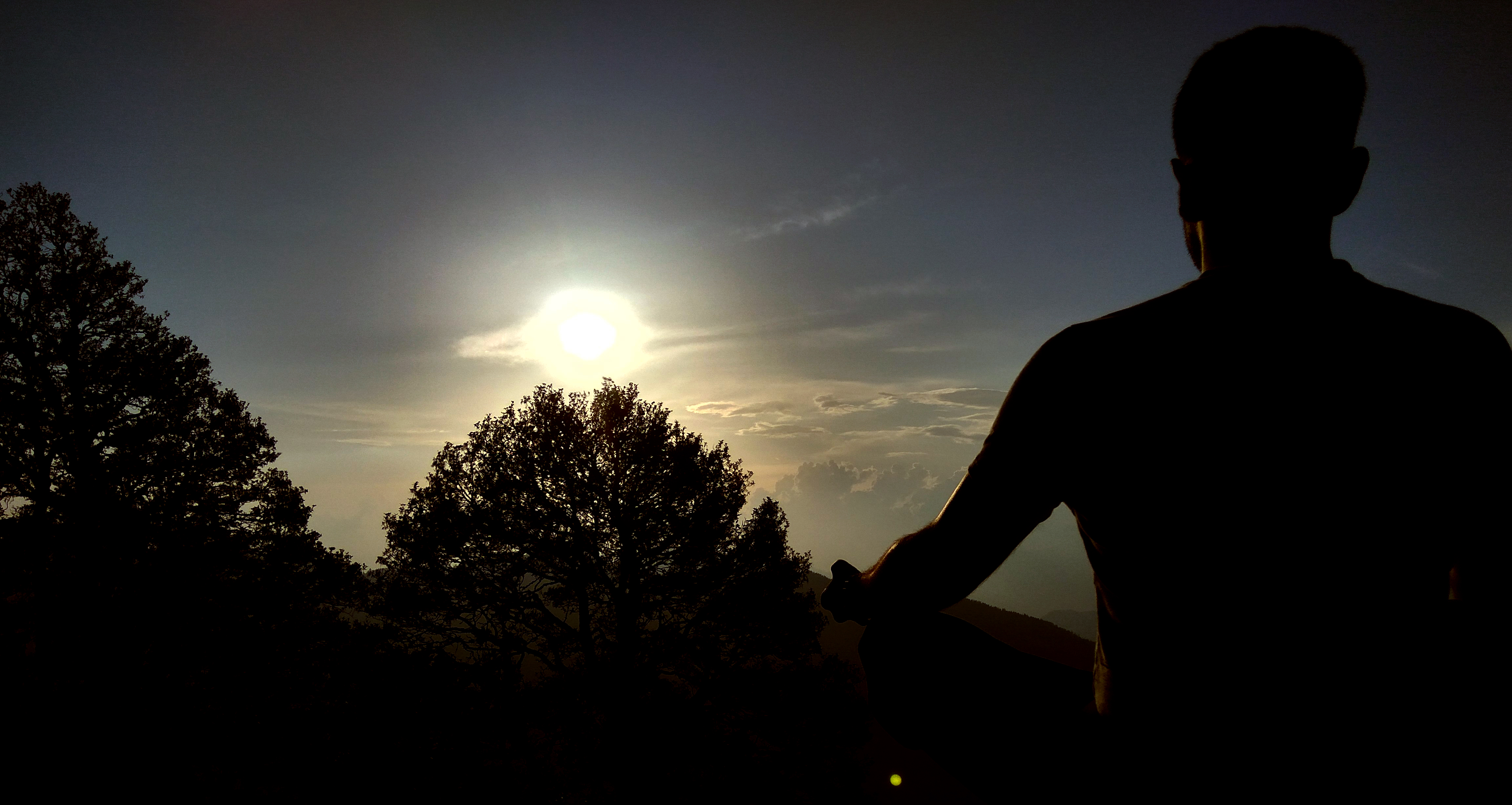 Self reflection and awareness through mediation and balance